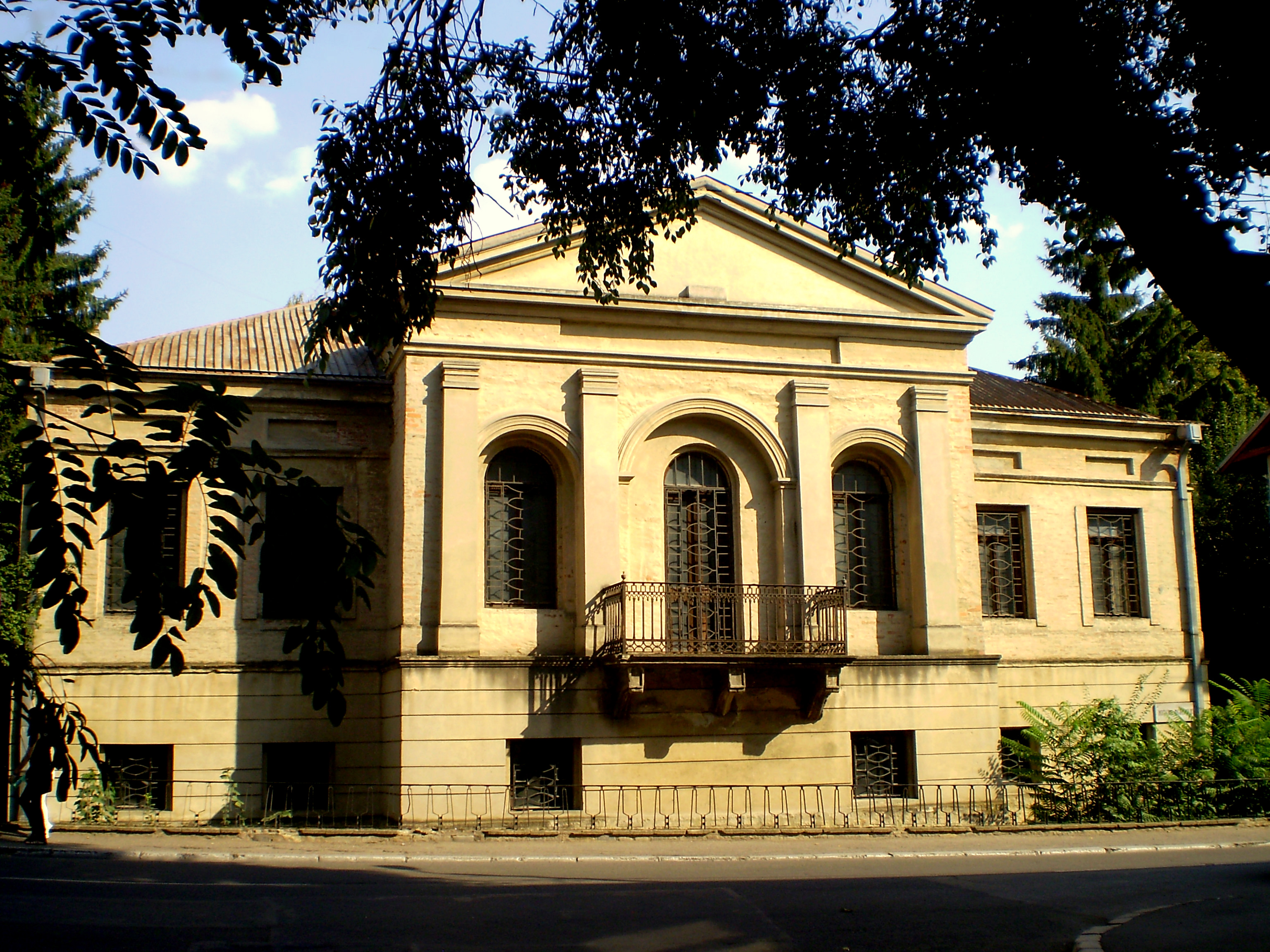 Iaşi , Museum of the Theatre , Iaşi , Romania